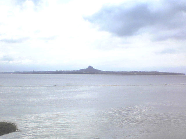 Ie Island in Okinawa.